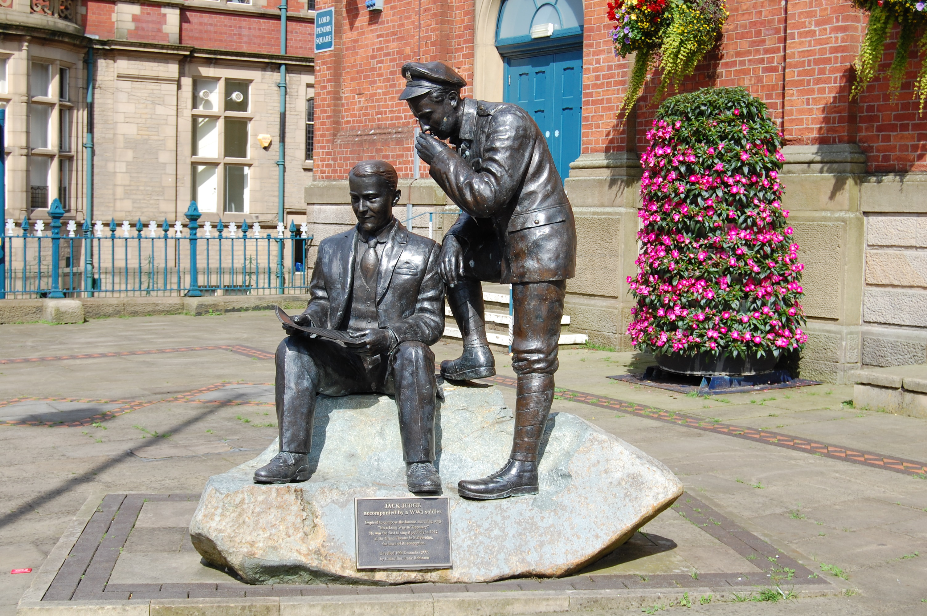 The song It's a Long Way to Tipperary was written in Stalybridge in 1912 after composer Jack Judge was challenged to write, compose, and produce a song in just one night. Jack Judge is now commemorated by a statue outside Victoria Market Hall in Stalybridge.